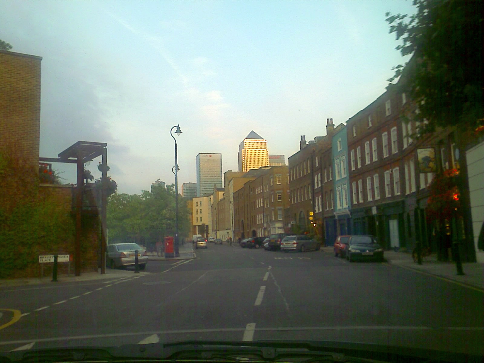 A view of the Canary Wharf commercial buildings taken from Narrow Street.